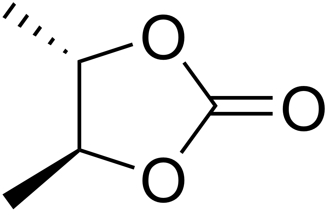 Chemical structure of trans-2,3-butylene carbonate